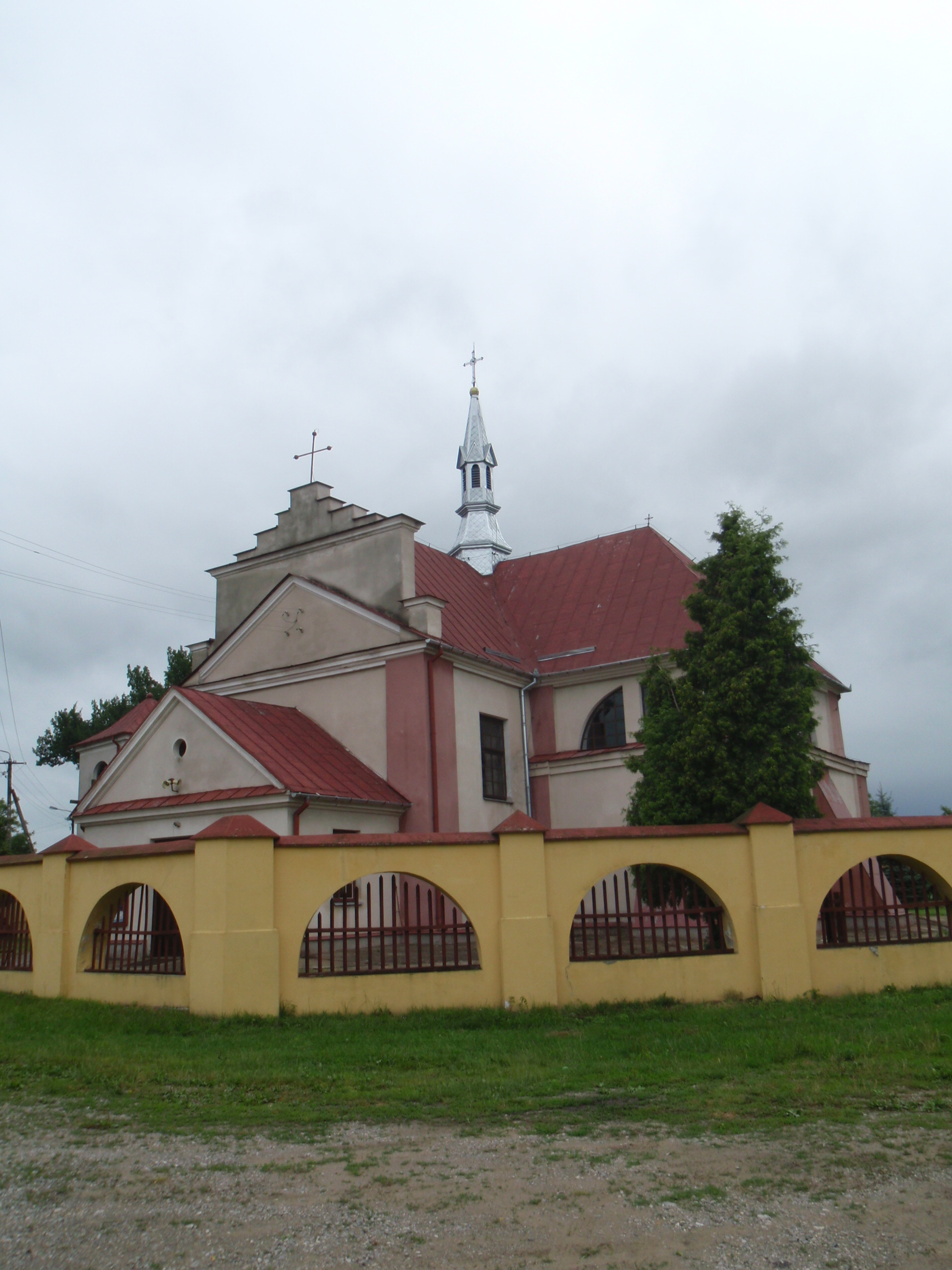 Saint Stanislaus church in Oleksów